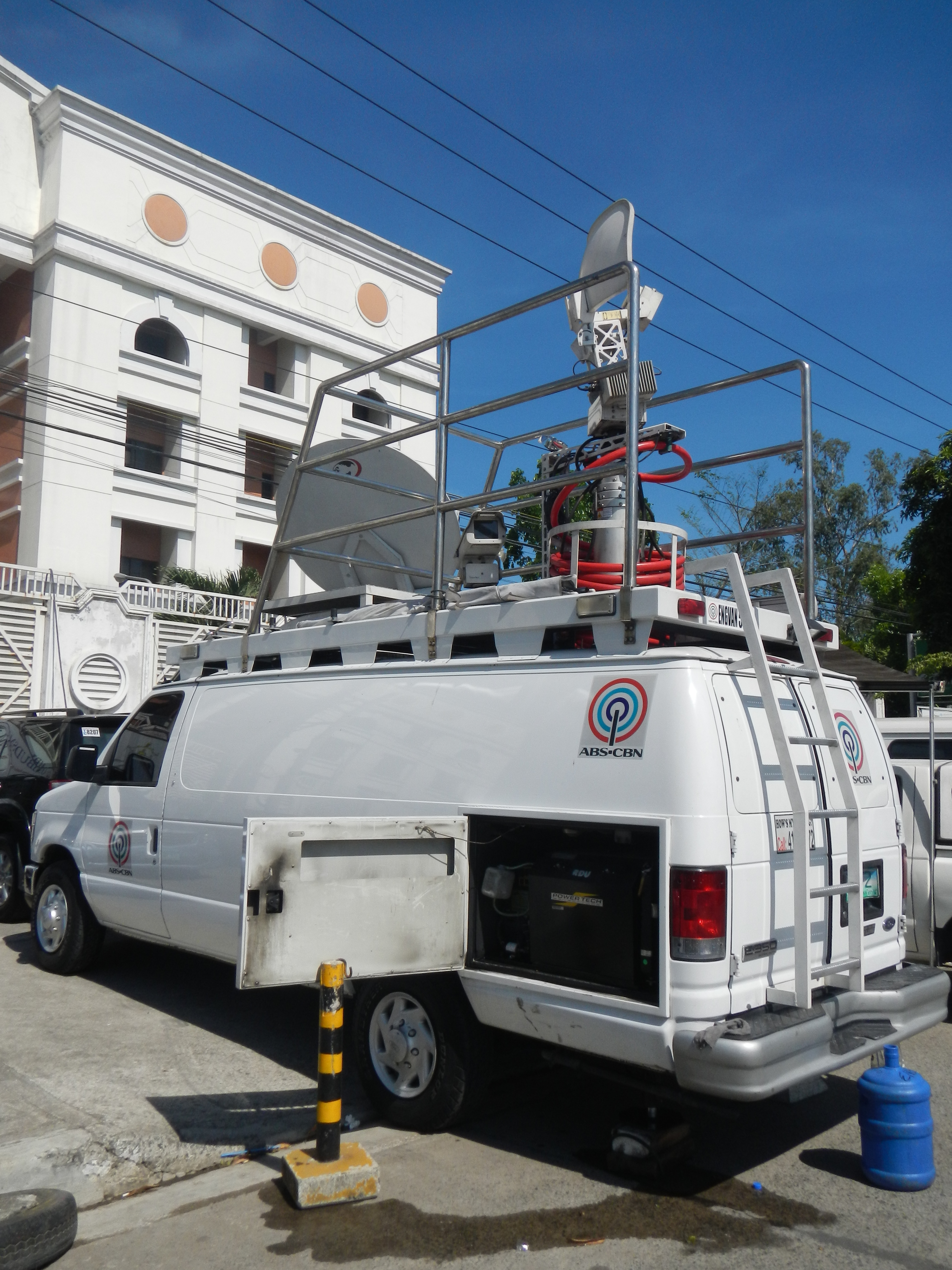 Ombudsman of the Philippines [1] (Office of the Ombudsman Building OMB - Central Office Ombudsman Building Agham Road, North Triangle Diliman, Quezon City 1101).